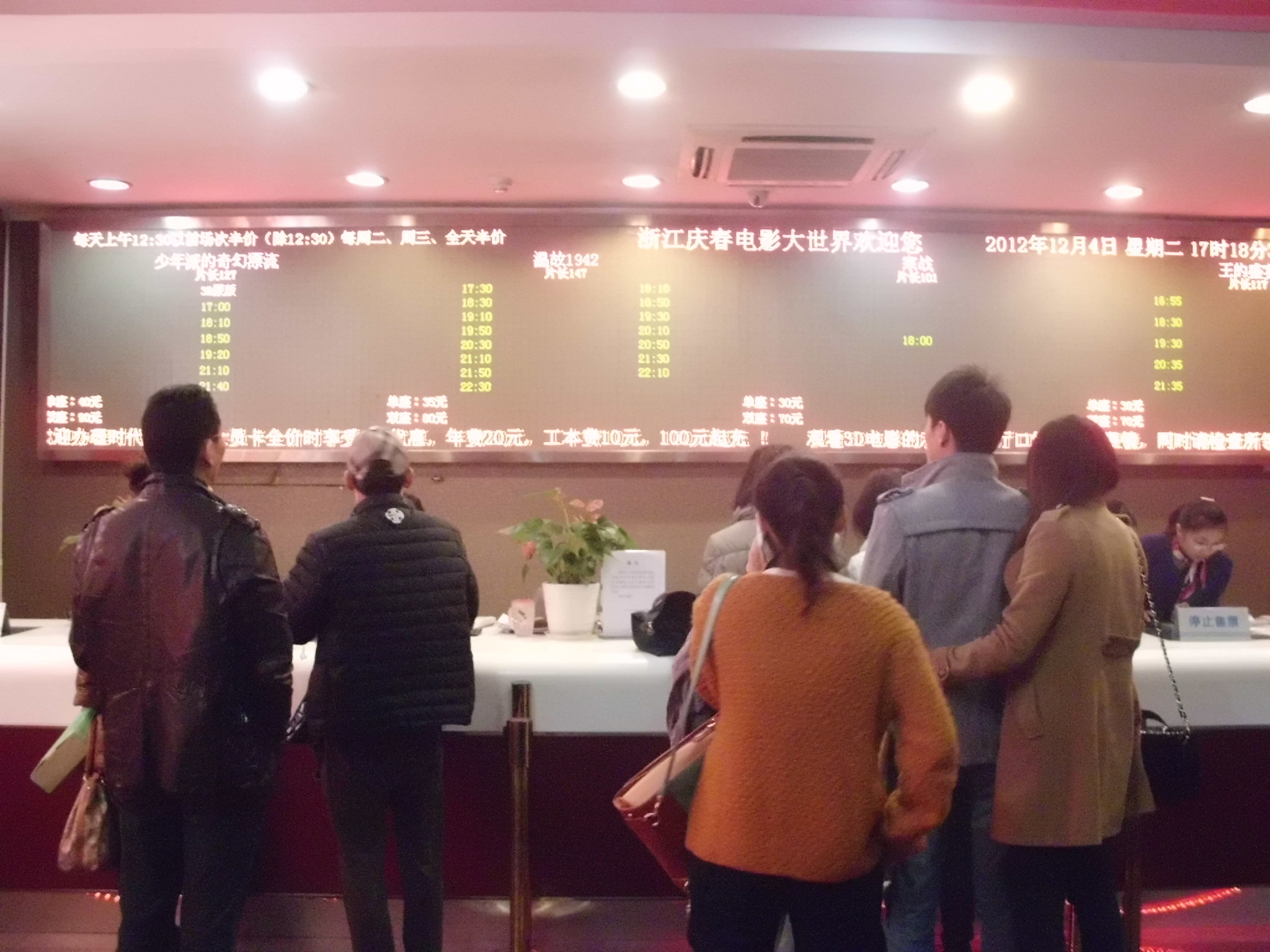 Qingchun Movie World